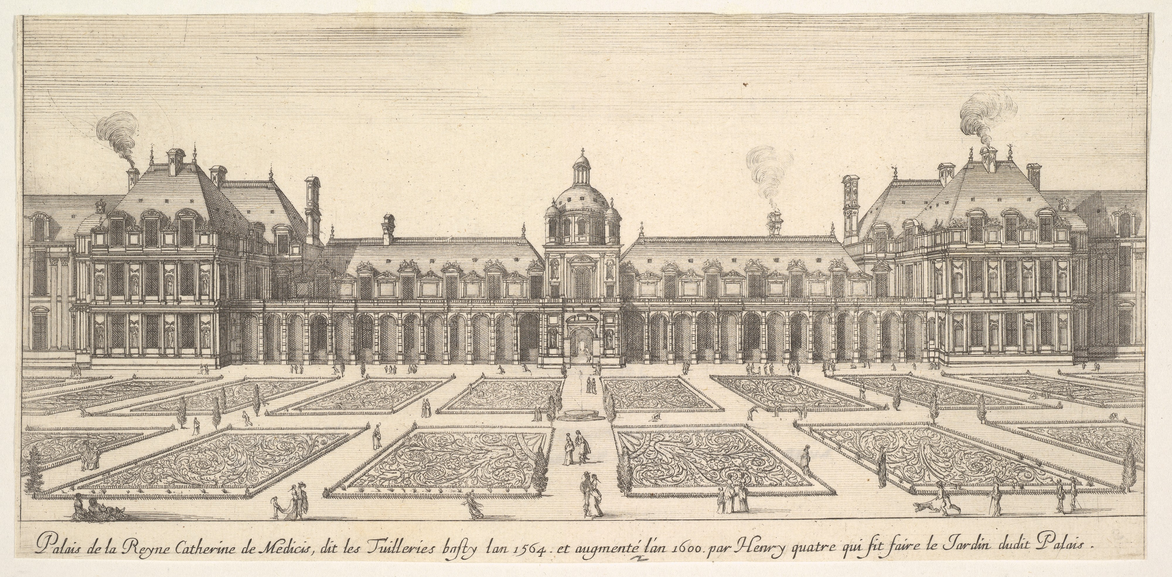 Garden facade of the former Tuileries Palace in Paris, before the modifications begun by Louis Le Vau in 1659